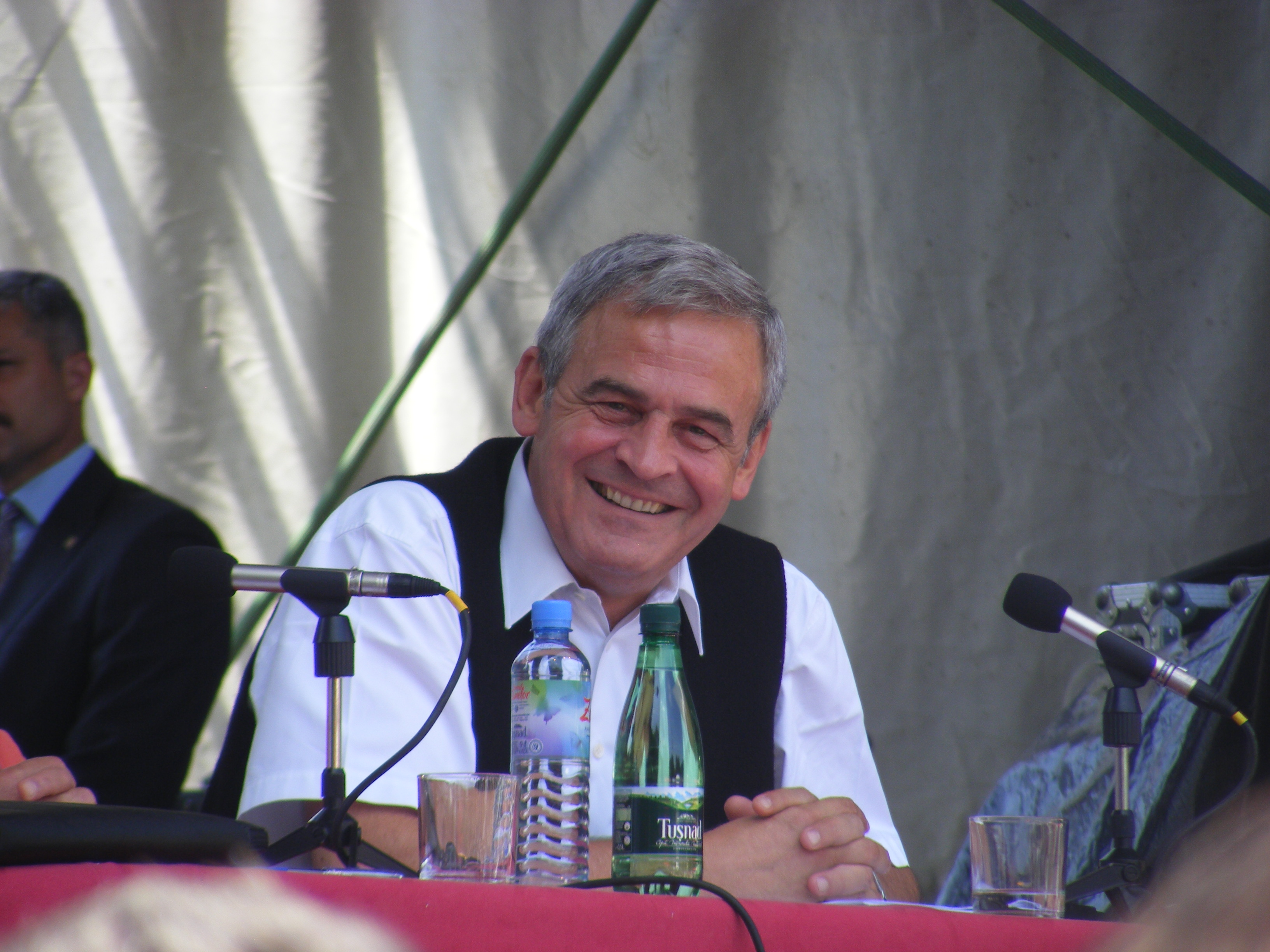 László Tőkés in 2010